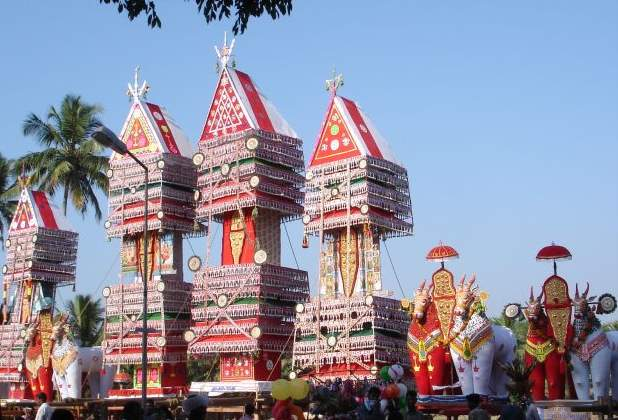 Kettukazcha @ ezhamkulam temple